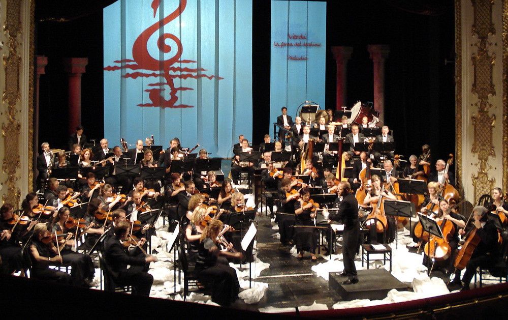 Miskolc Symphonic Orchestra in International Opera Festival Miskolc, Hungary (2010) Conductor: Carlo Montanaro